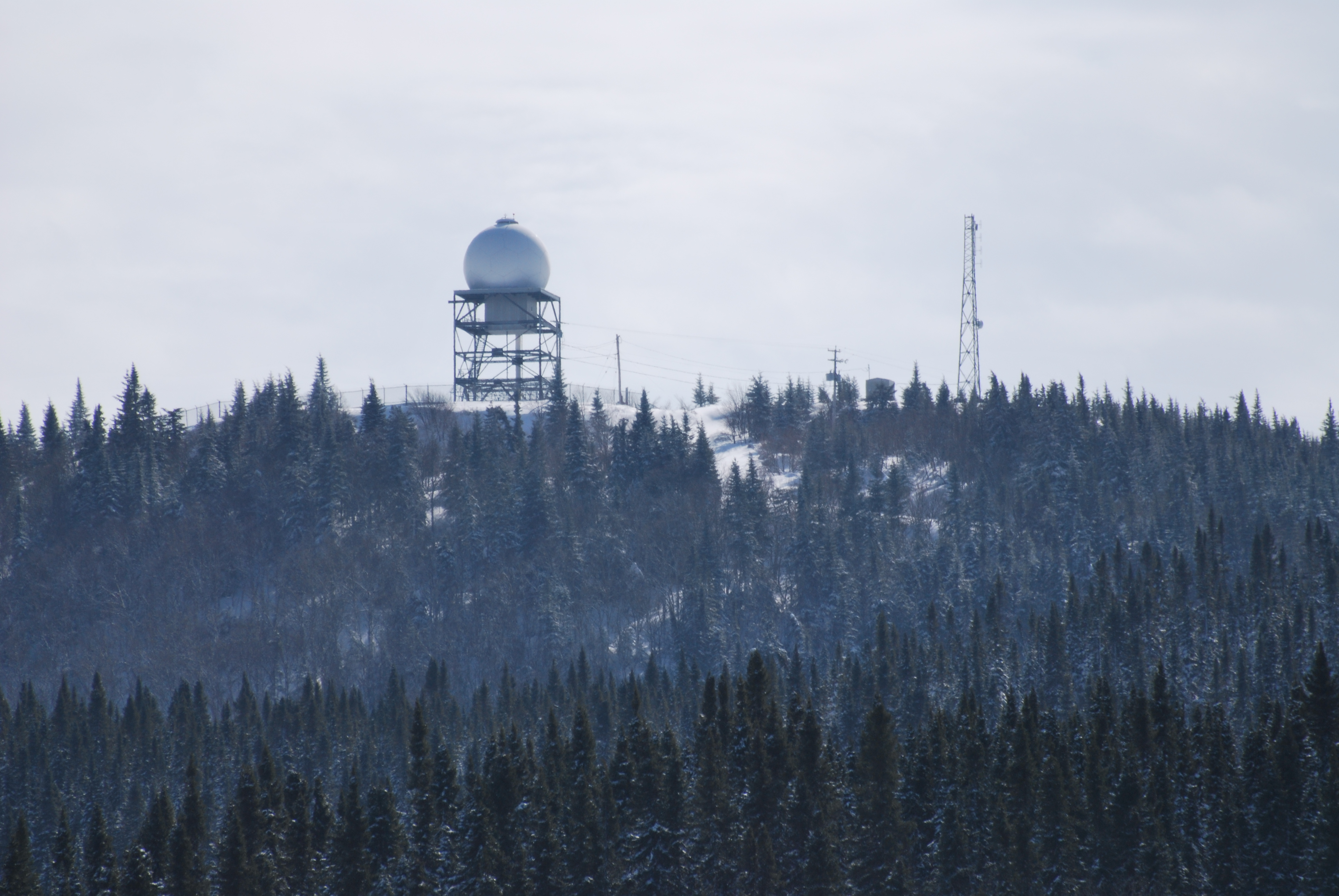 Site of the Independent Secondary Surveillance Radar (ISSR), designation YMT, as seen from Quebec route 167 between Chibougamau and Mistissini, near mount Cummings.